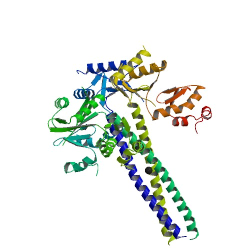 Trimeric structure and flexibility of the L1ORF1 protein in human L1 retrotransposition.